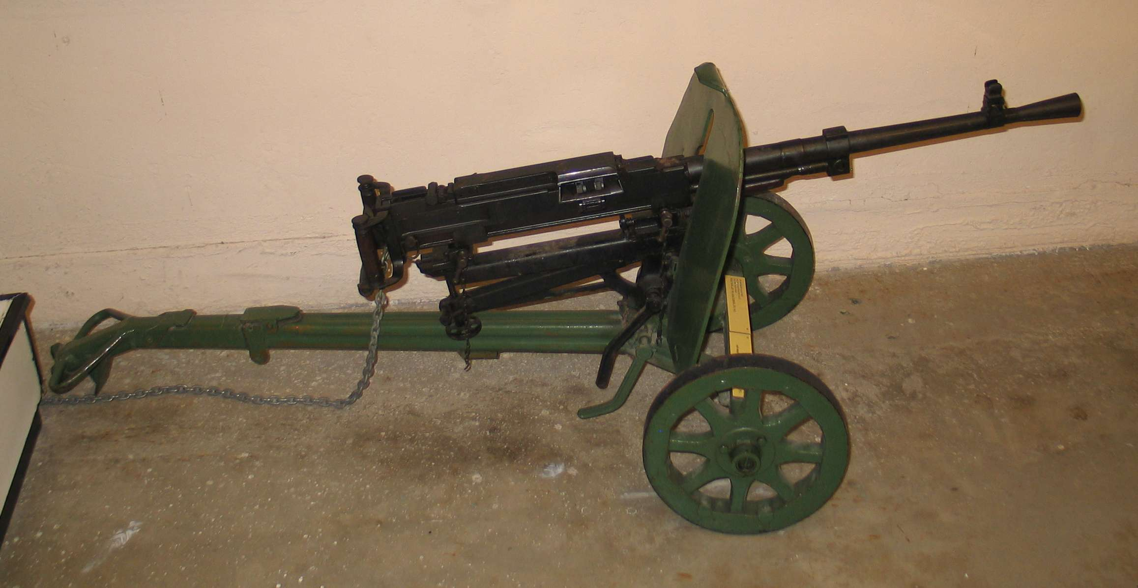 SG-43 machine gun in Batey ha-Osef museum, Tel Aviv, Israel.